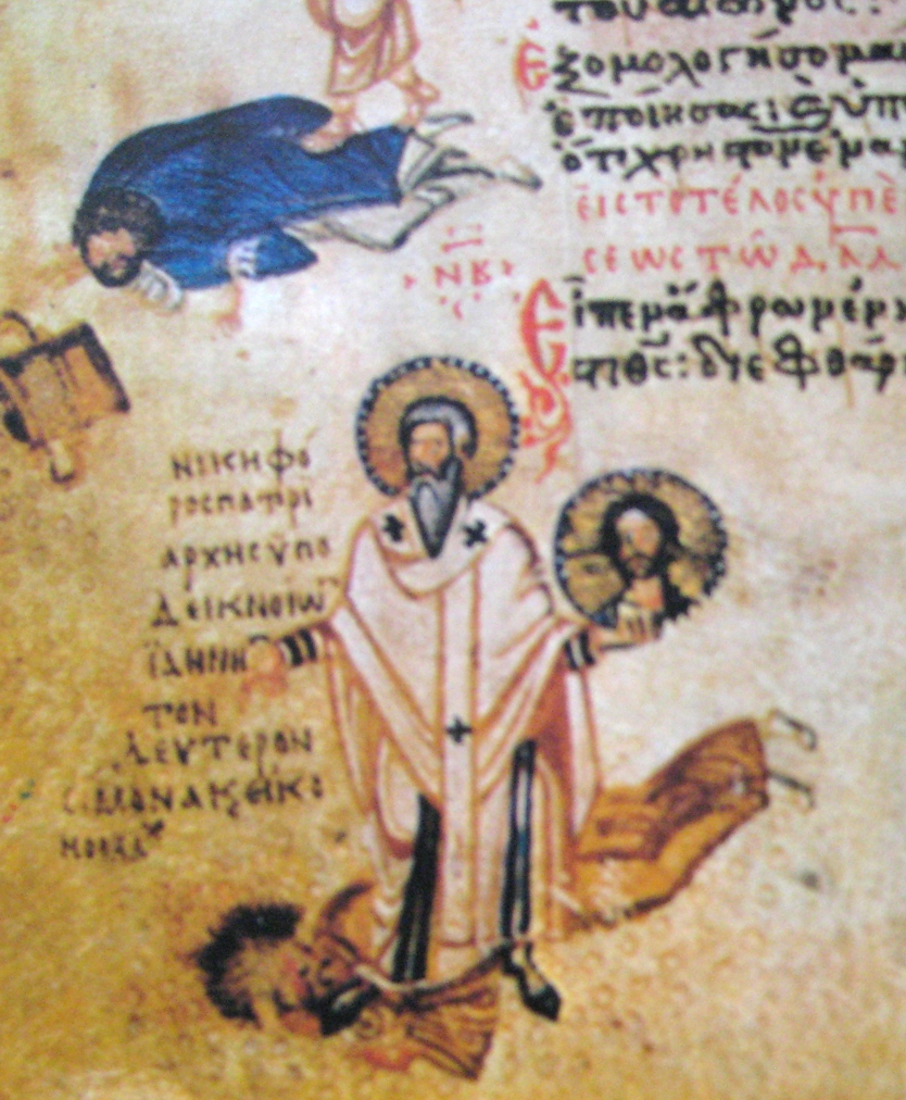 Nikephoros I of Constantinople trample on John VII of Constantinople, who is laying on the ground with coins. Miniature from Chludov Psalter. Above - fragment of apostle Peter trampling Simon the Magi.